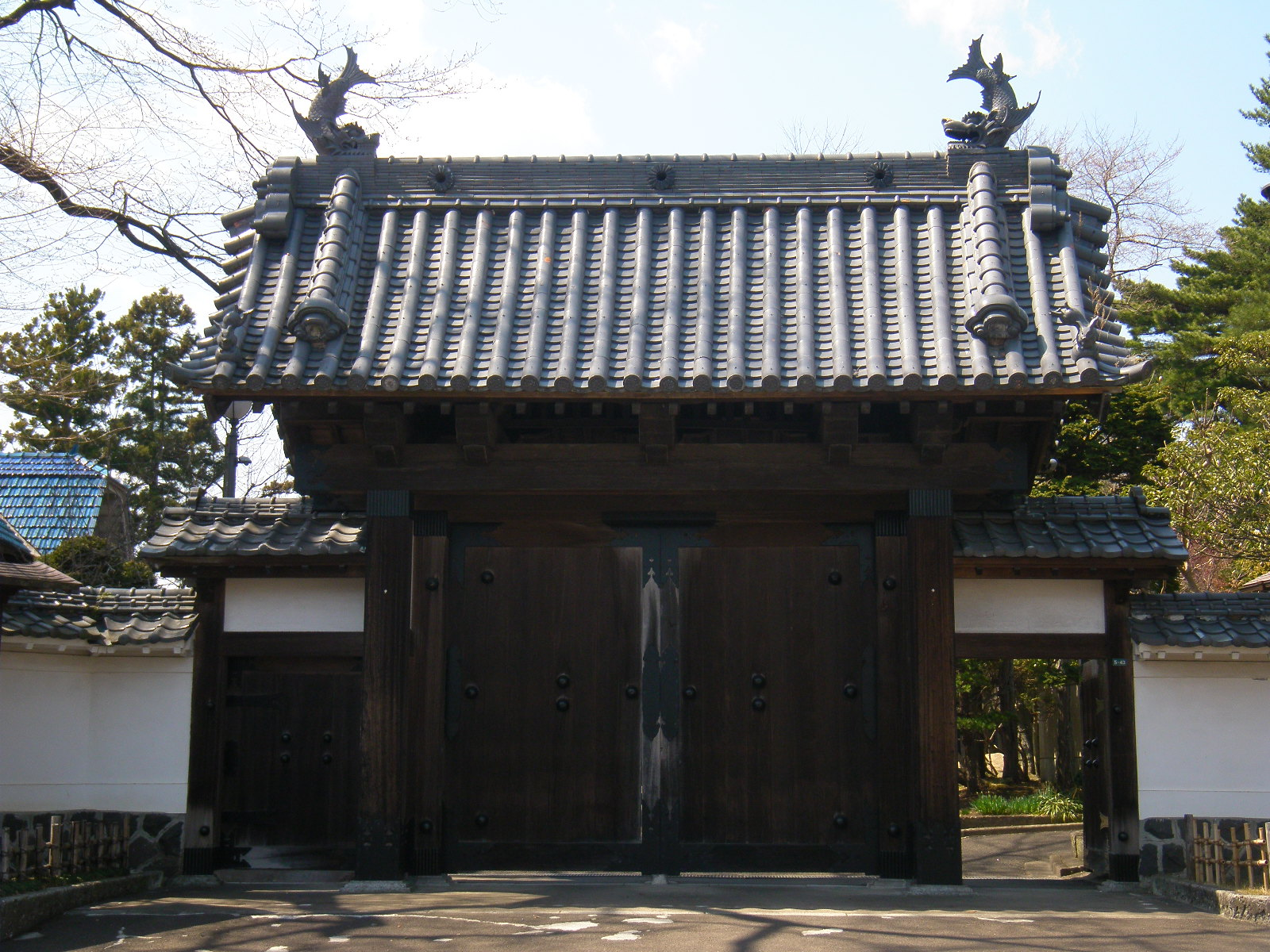 The Main Gate of the Official House of the Governer of the Miyagi Prefecture. One of the gates of the Sendai Caslte.